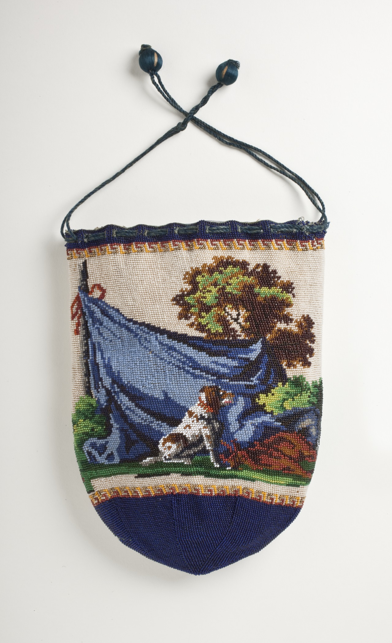 Probably England, 1820-1830 Costumes; Accessories Silk knit with glass and metallic beads, and leather lining Anonymous gift (M.85.240.76) Costume and Textiles